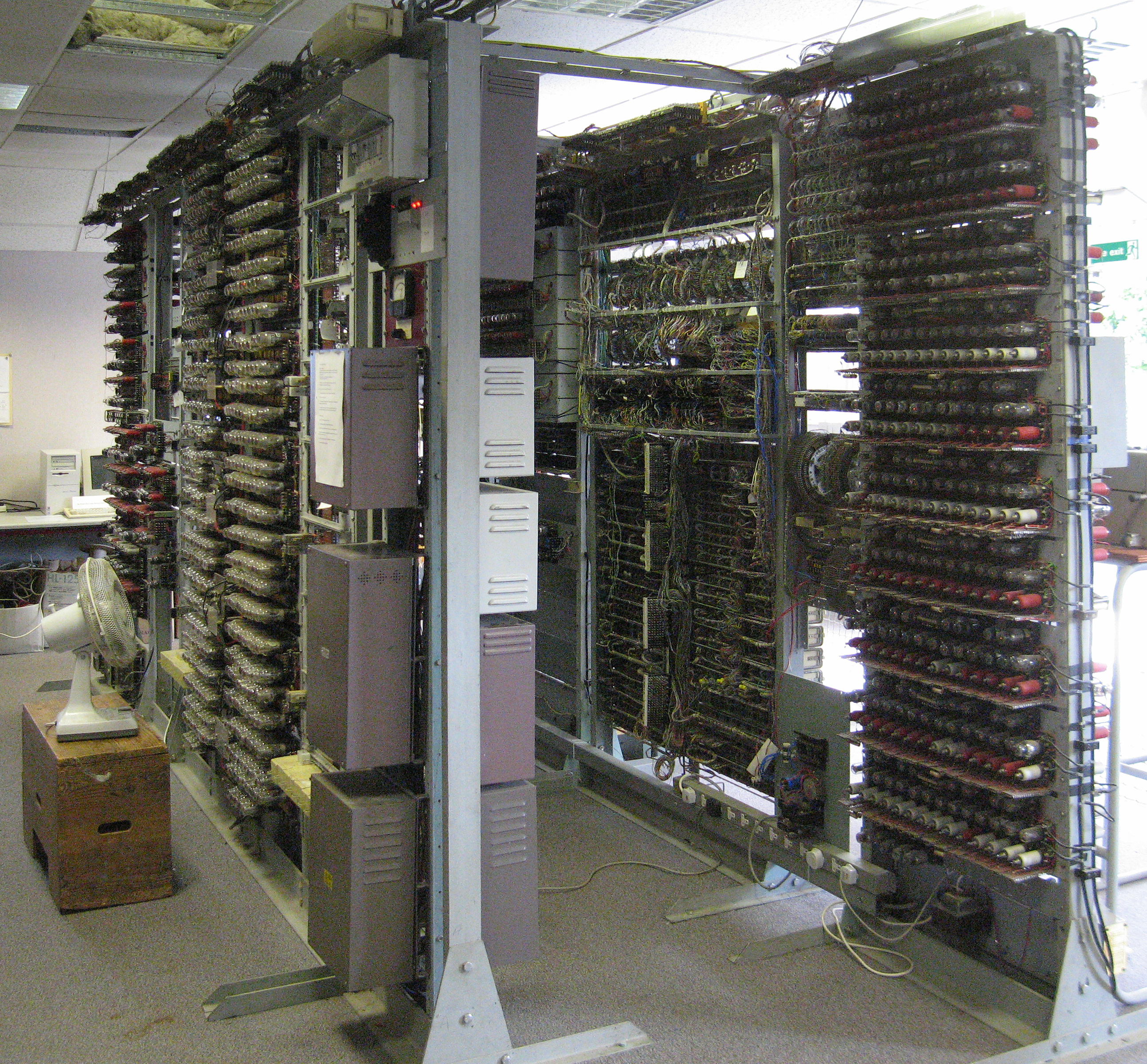 The Colossus computer rebuild from the rear